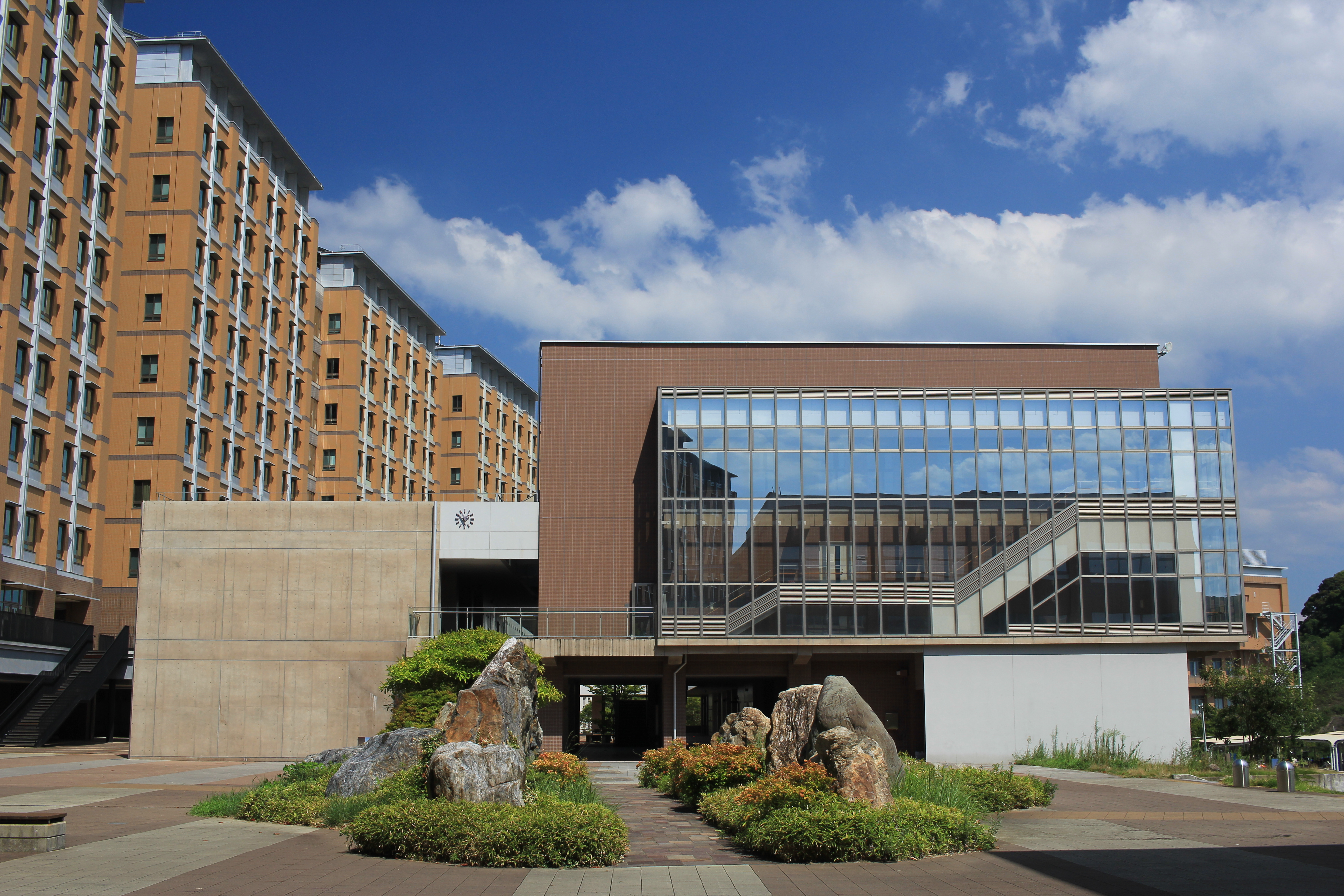 Kyushu University Ito Campus West Zone 2 and Open Learning Plaza Canon EOS 60D